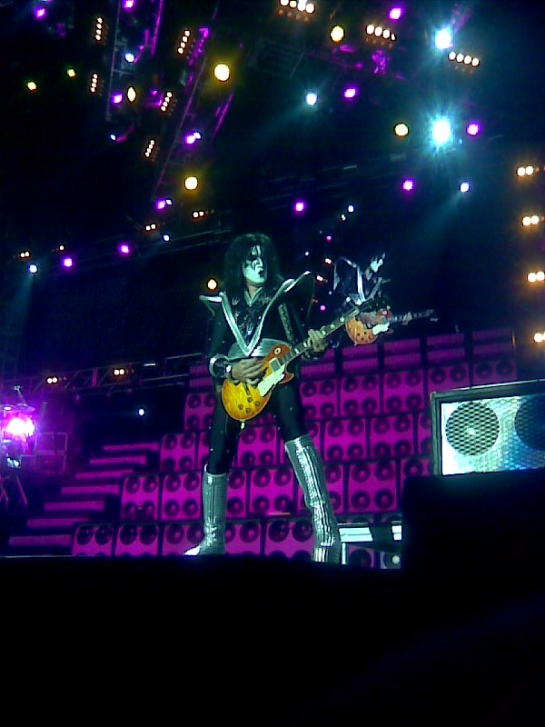 Tommy Thayer in a KISS concert in Helsinki, Finland 2008